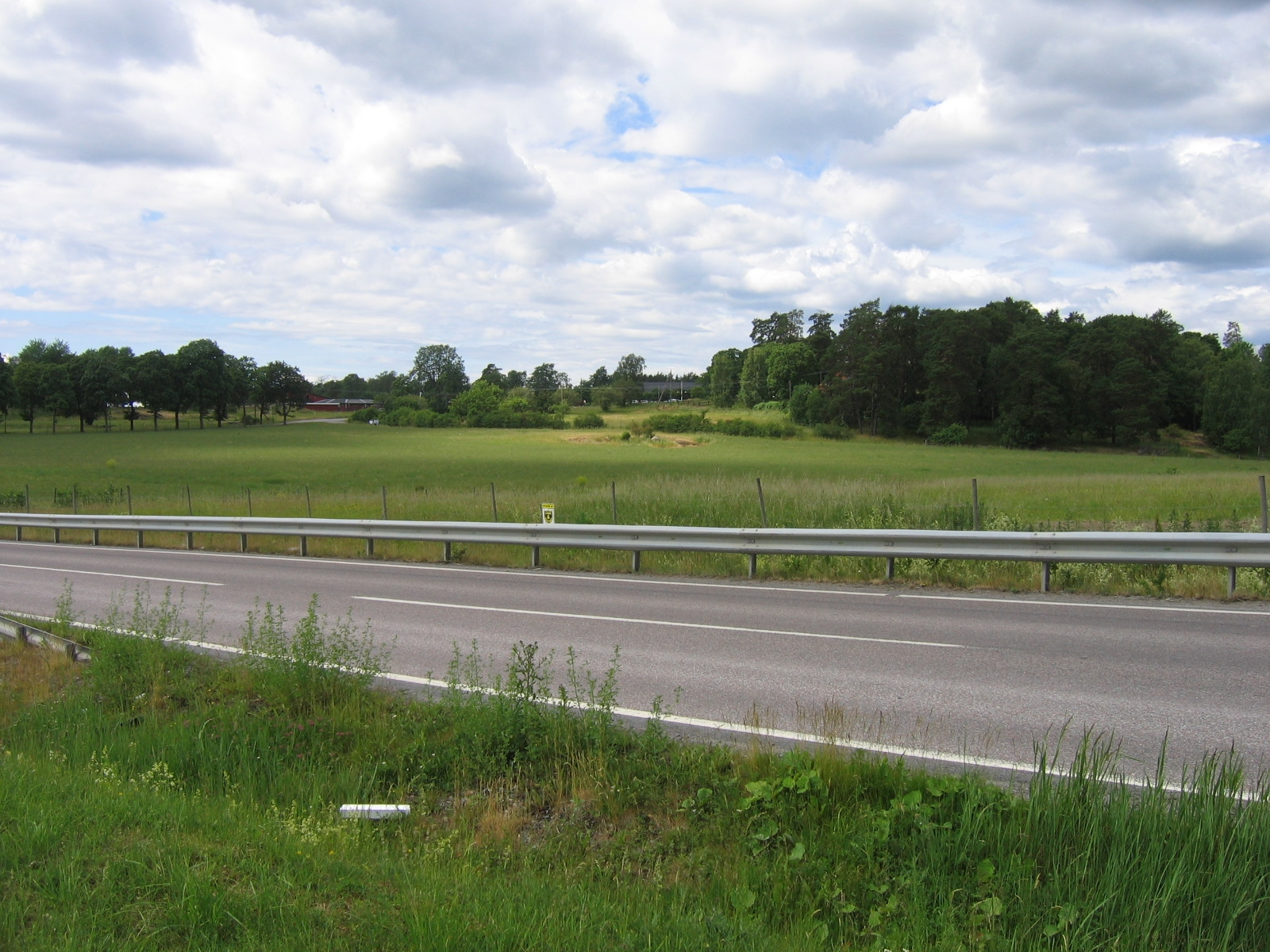 locations of graves